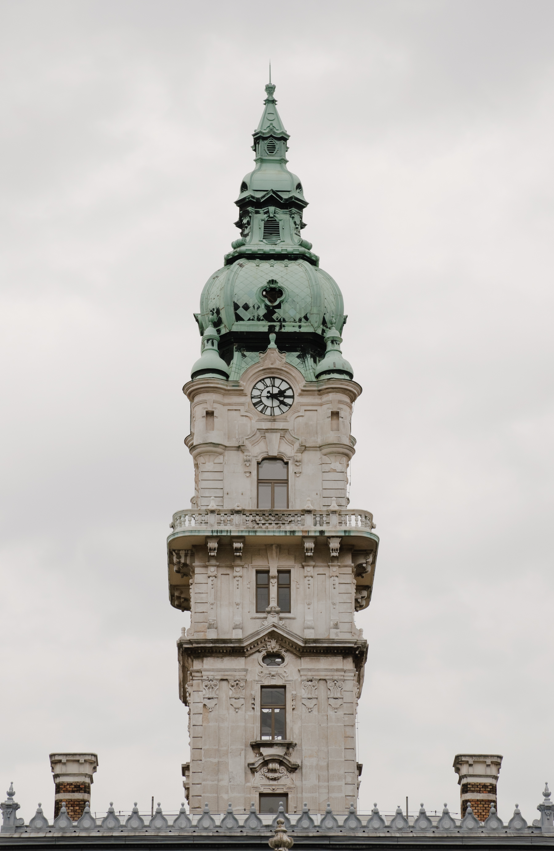 The tower of Győr City Hall, Hungary.